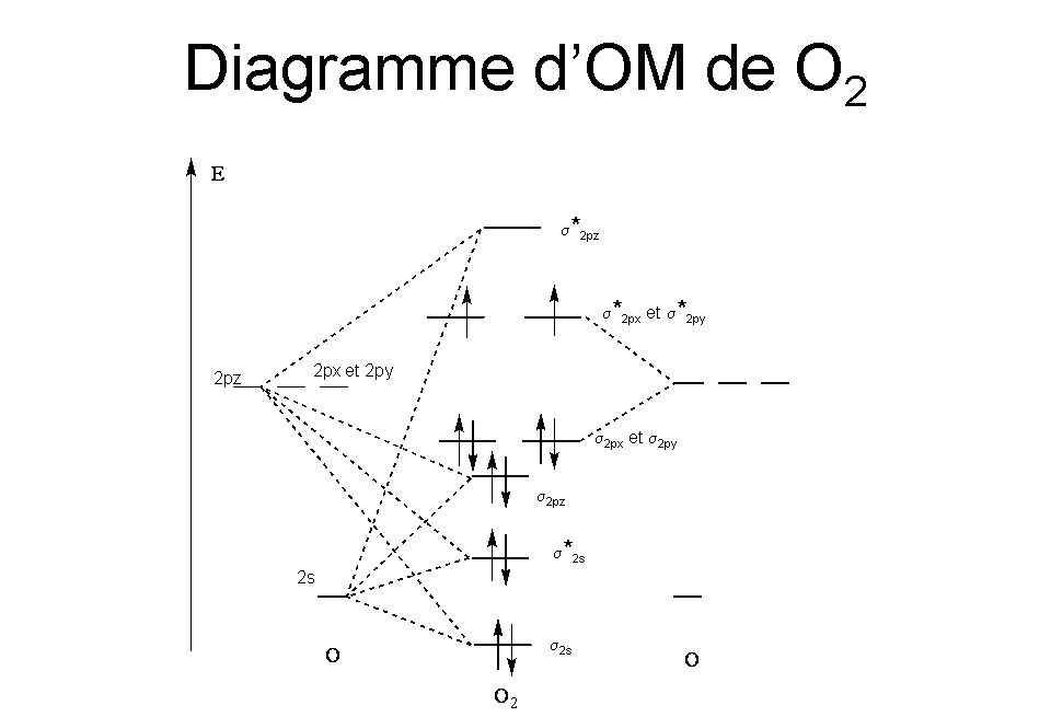 Molecular orbital diagram oxygen